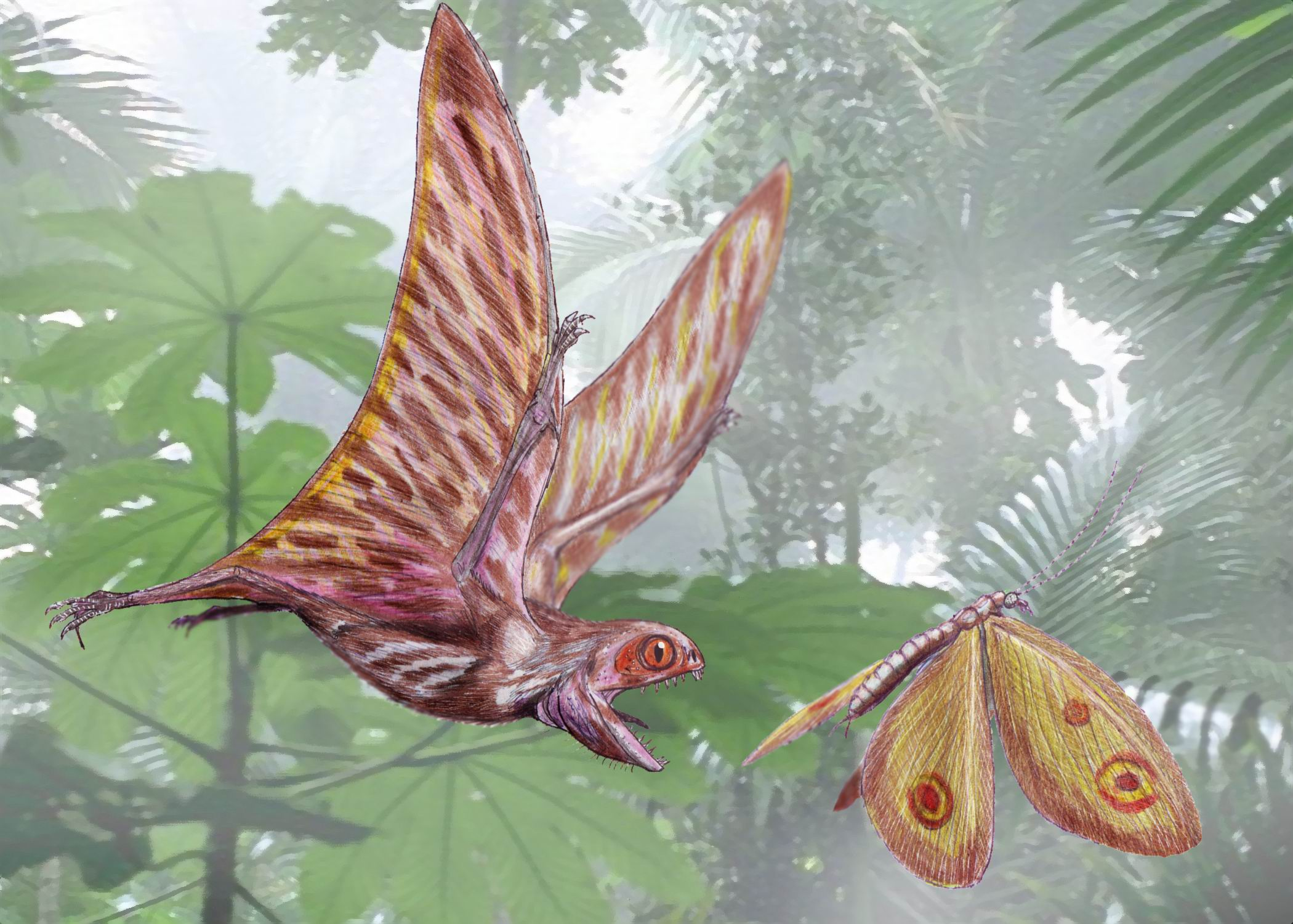 Anurognathus ammoni, a pterosauria from the Upper Jurassic of Germany (Solnhofen limestone) hunting Kalligramma haeckeli.